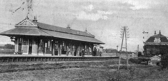 Station Vreeland (Netherlands)